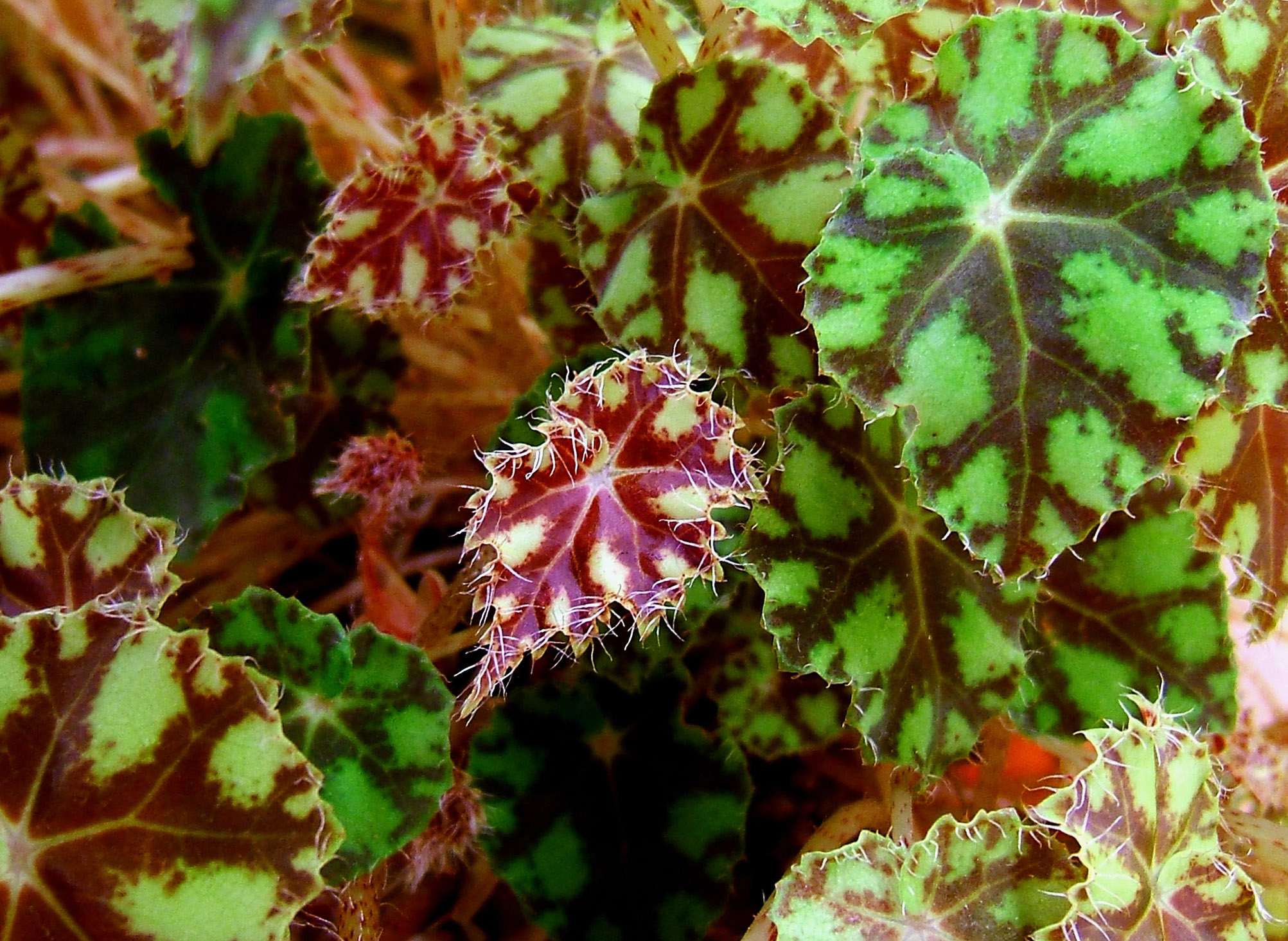 eyelash begonia